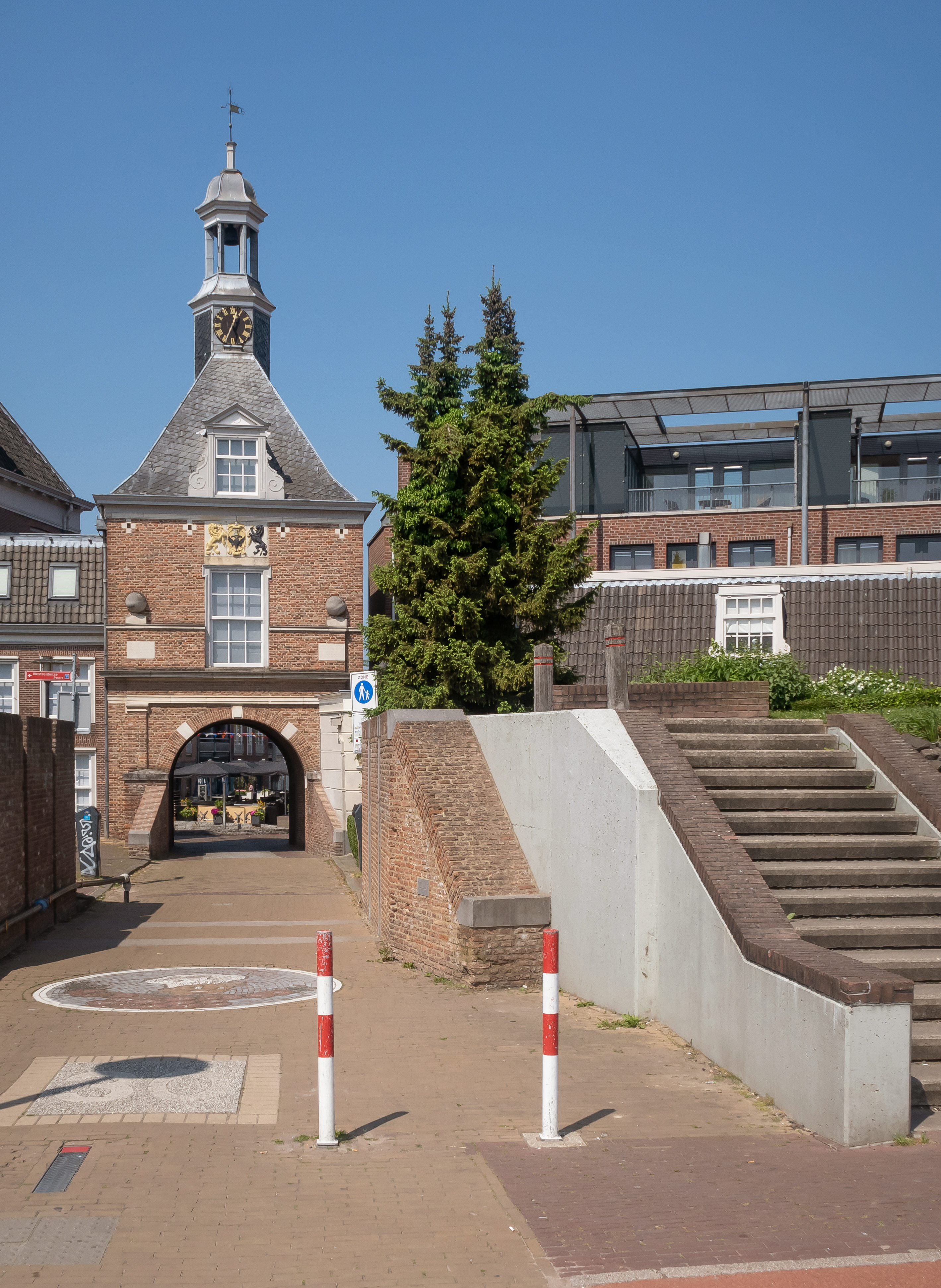 Tiel, towngate (de Waterpoort) from the Havendijk